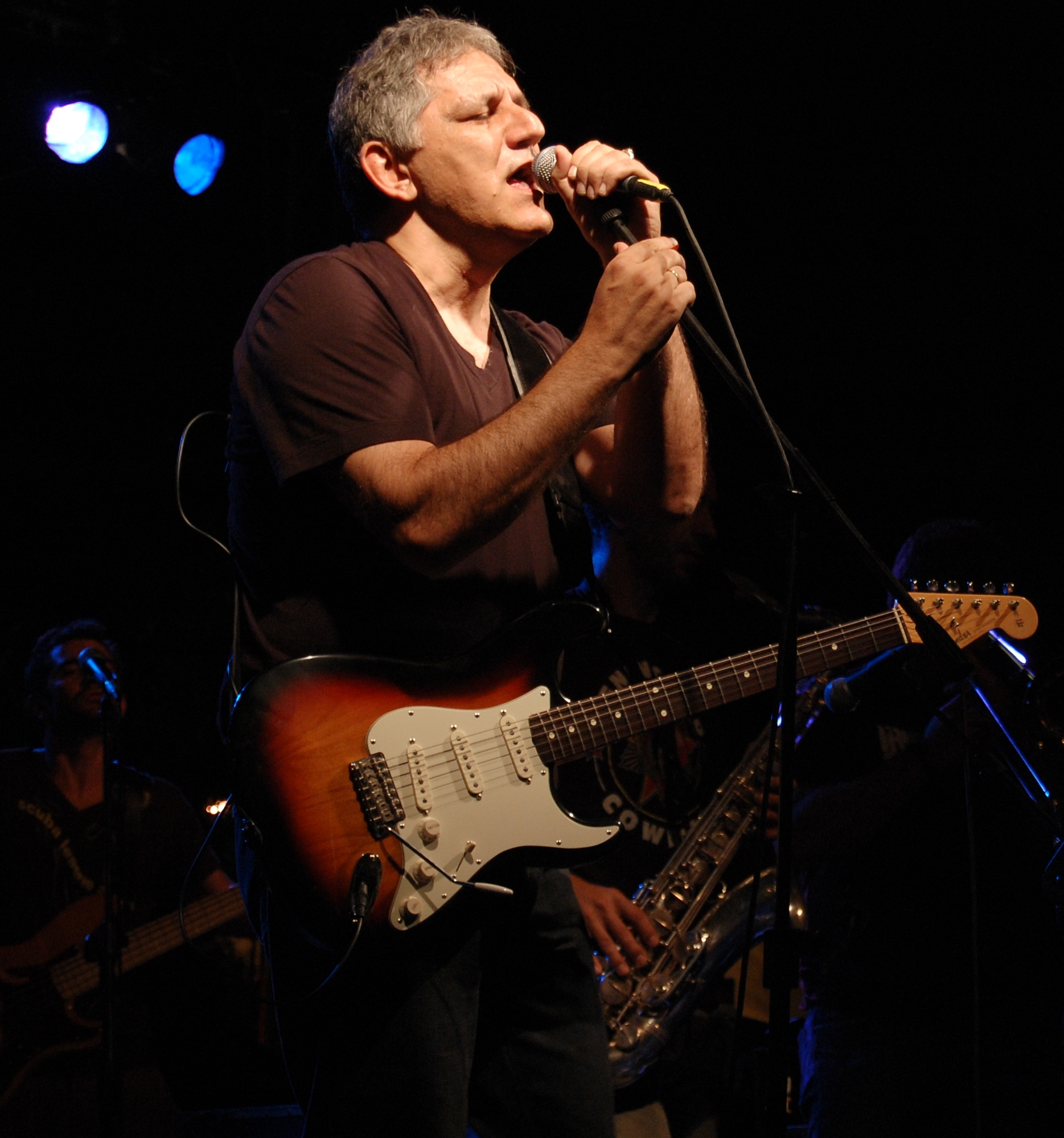 Singer and composer Nikos Portokaloglou live during World Music Day 2009 in Athens.